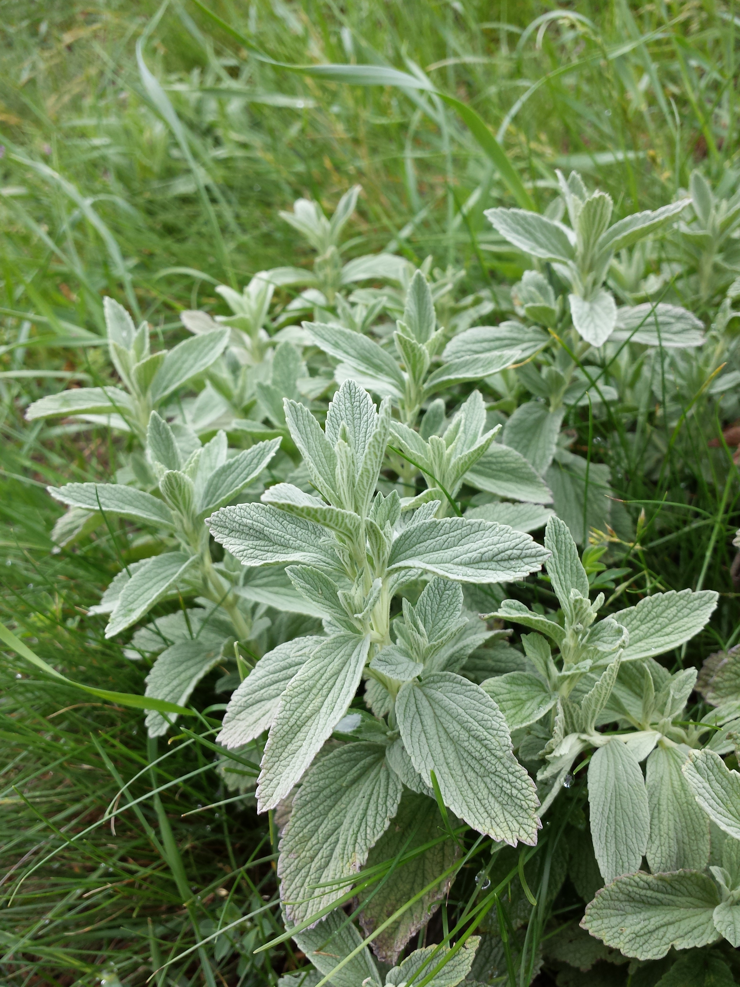 Habitus Taxon: Marrubium peregrinum (sensu Fischer et al. EfÖLS 2008 ISBN 978-3-85474-187-9; det. W. Adler 2014-05-30) Location: Staatzer Klippe, district Mistelbach, Lower Austria - ca. 300 m a.s.l. Habitat: neglected grassland This media shows the natural monument in Lower Austria with the ID MI-052.